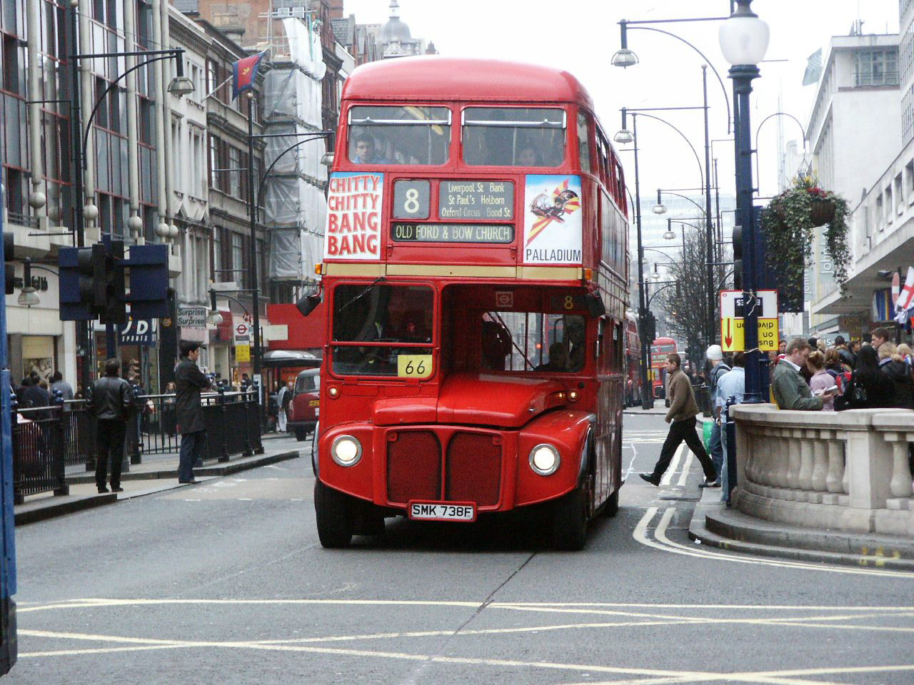 2738-SMK738F 060304 cps